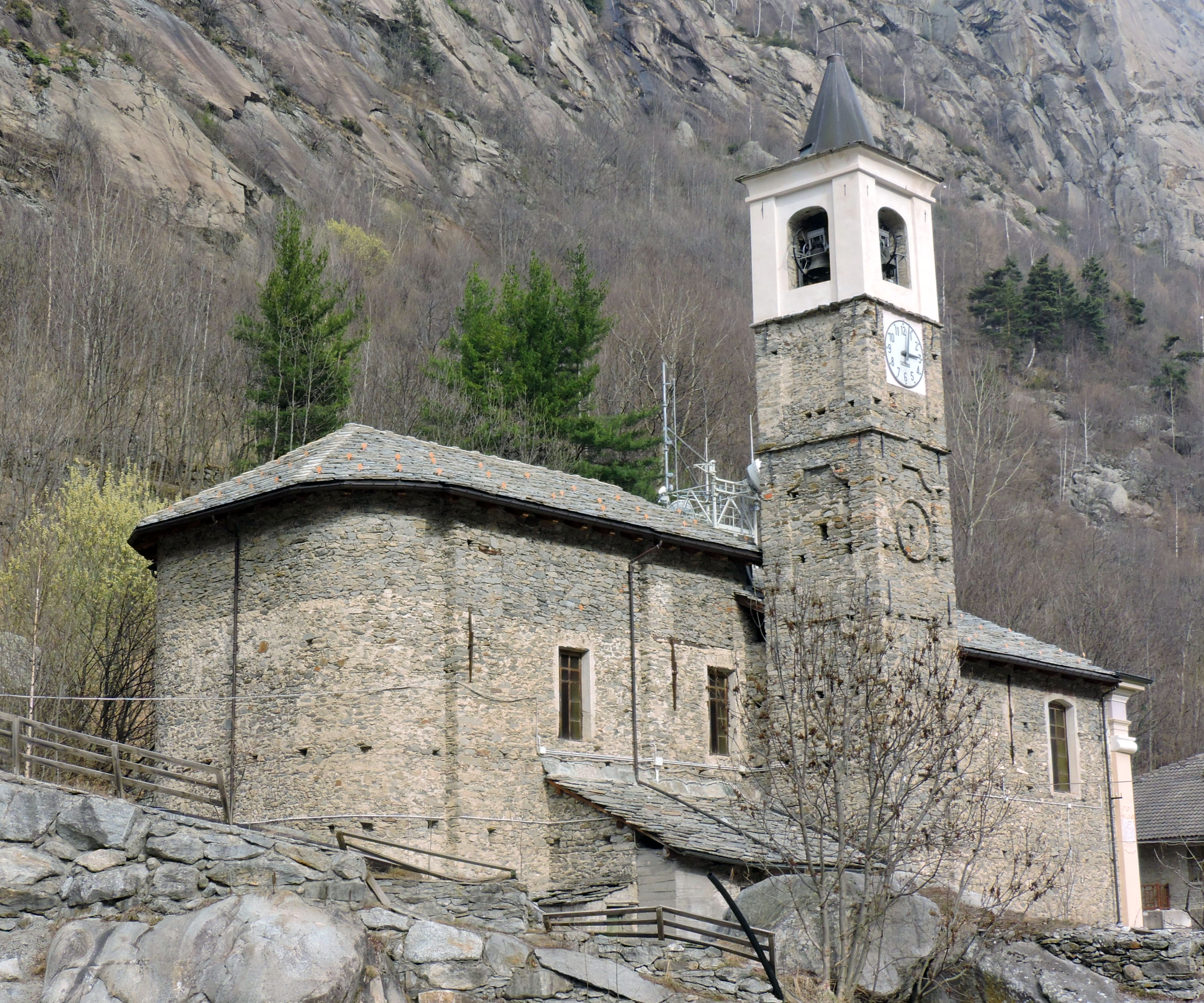 Noasca (TO, Italy): parish church of Maria Assunta